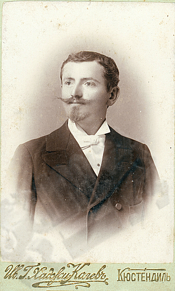 Daniel Blanchoud as a teacher in Kyustendil.